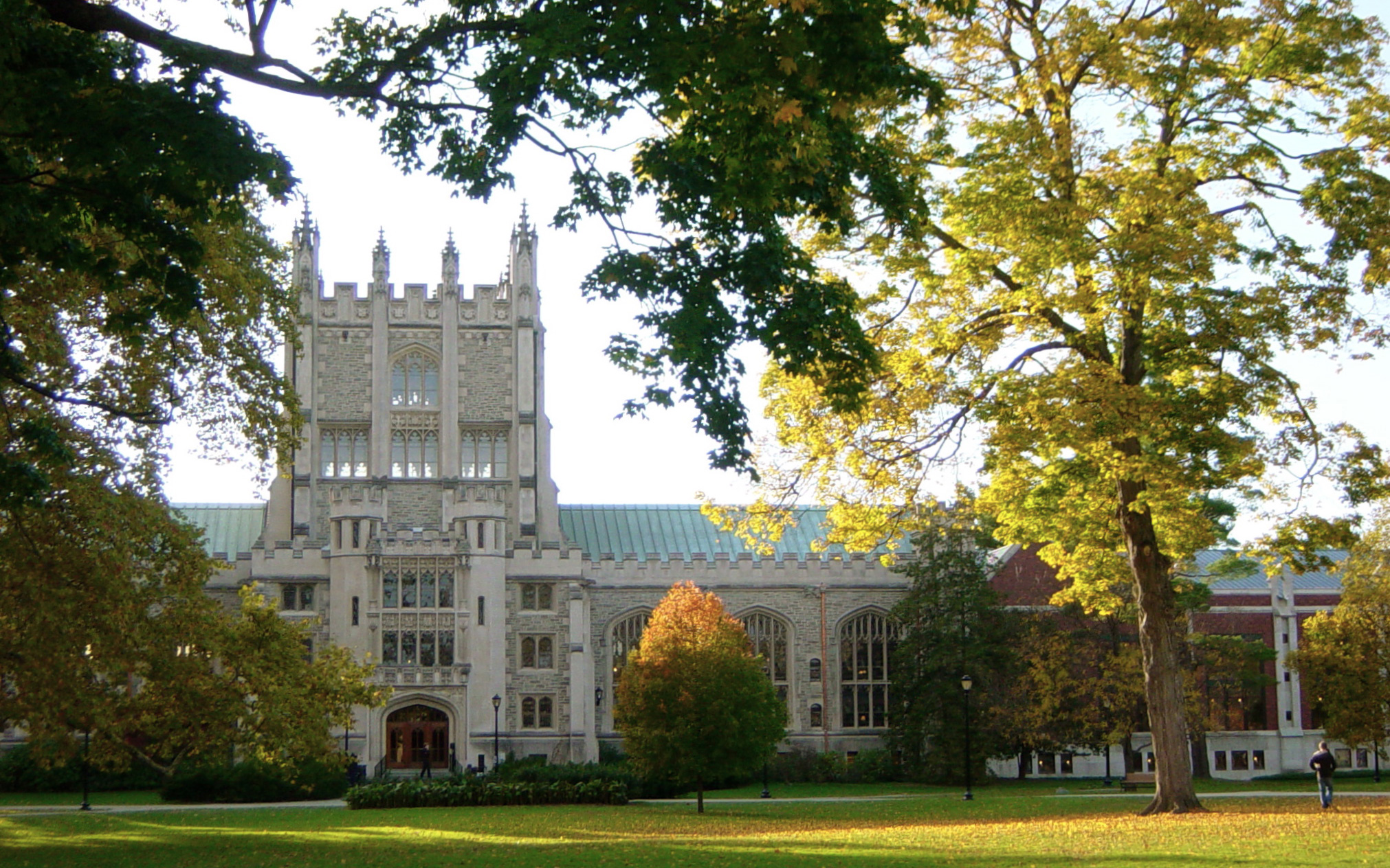 A photo of the Thompson Library at Vassar College in Poughkeepsie, New York, taken by me on November 2, 2007.